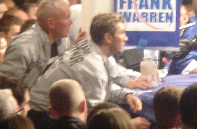 boxer Wayne McCullough